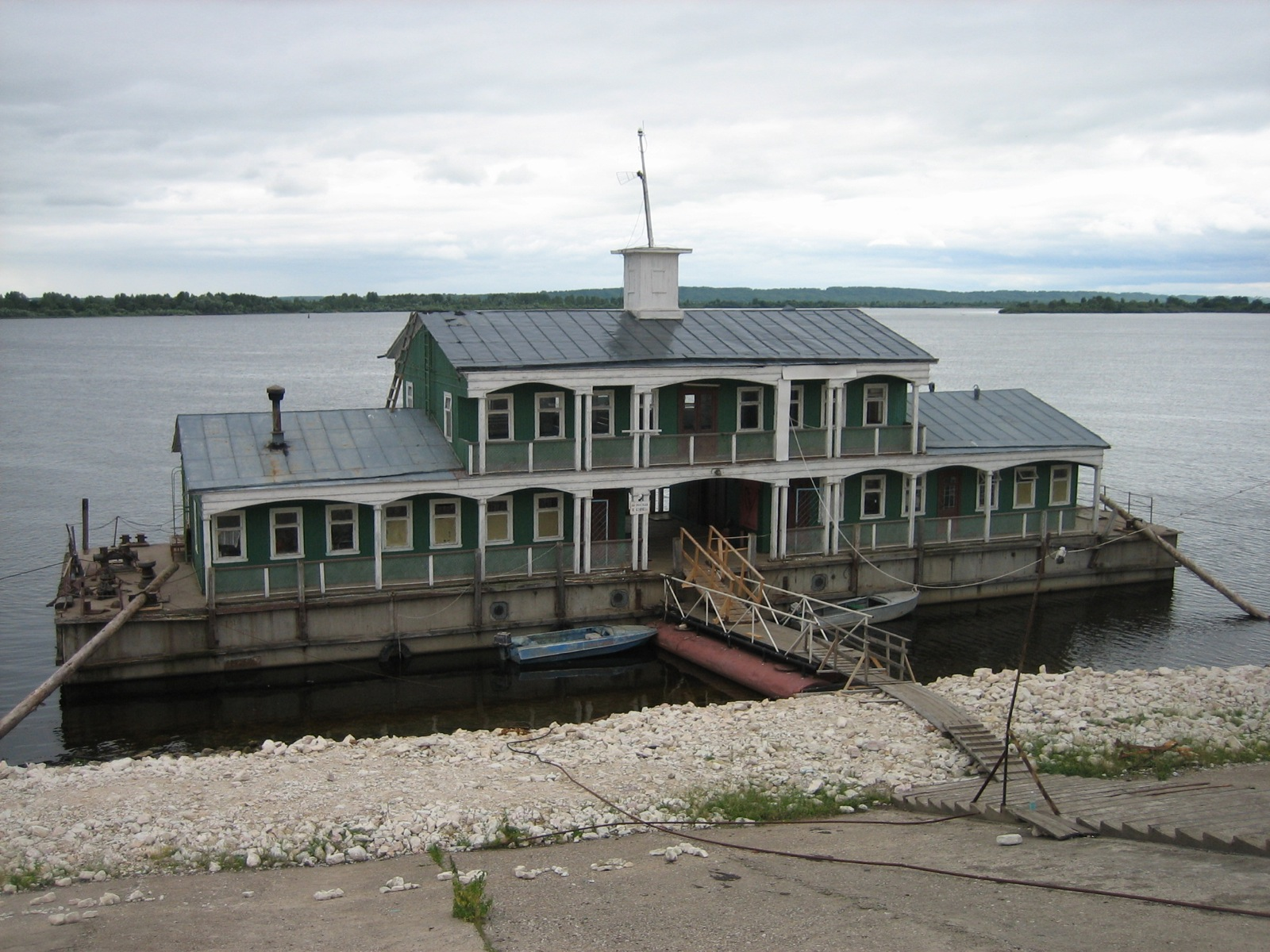 Houseboat on the river Volga.